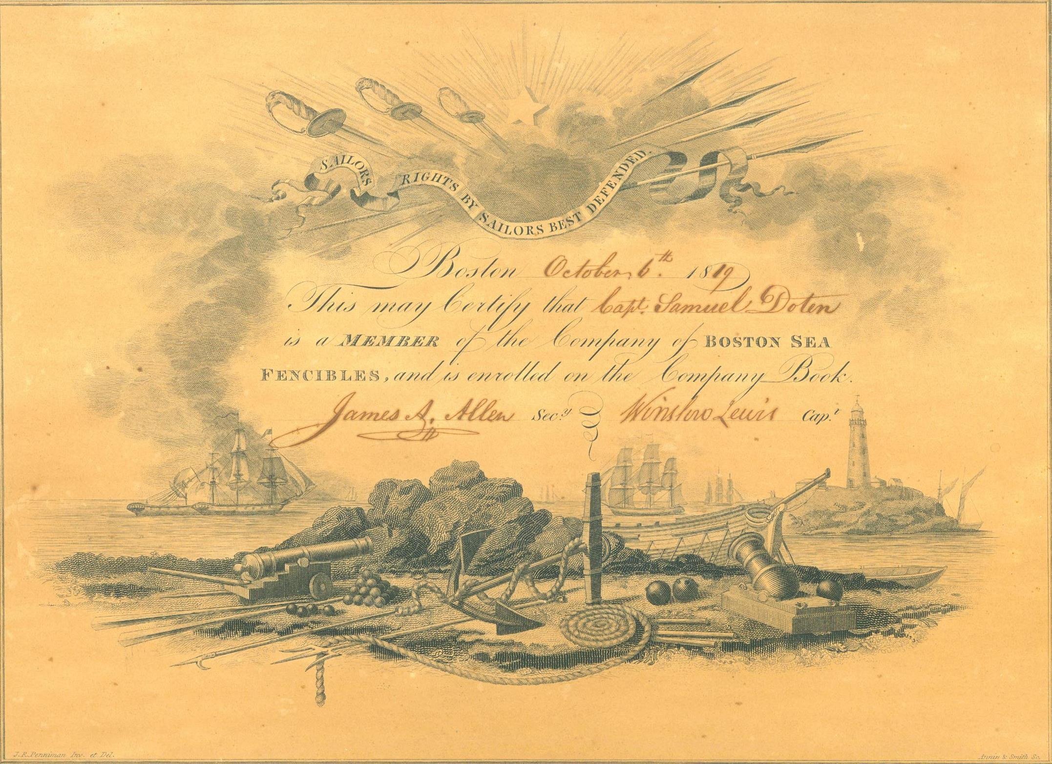 Certification of a Captain Samuel Doten into Boston Sea Fencibles regiment. Dated October 6th 1819. Signed by Doten and witnessed by, Secretary James A Allen and Captain Winslow Lewis.